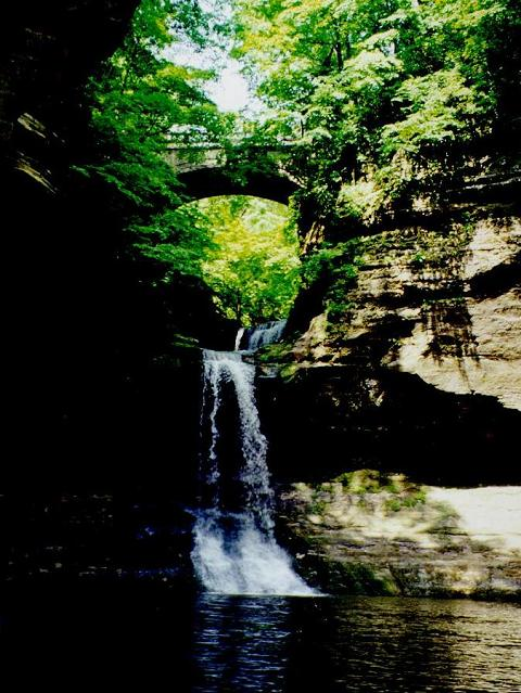 I took this photo on May 31, 1999, and scanned it recently. Feel free to provide a better photo. :)